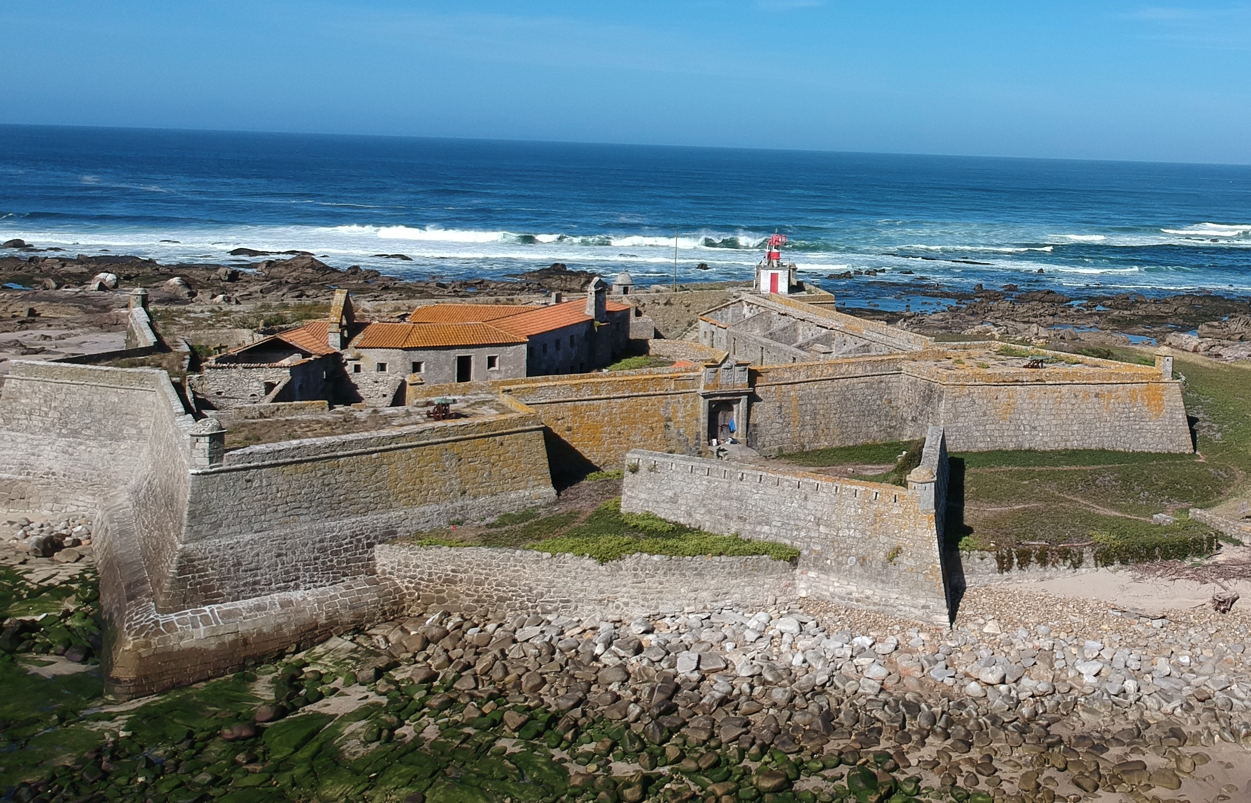 Forte da Ínsua Caminha Portugal